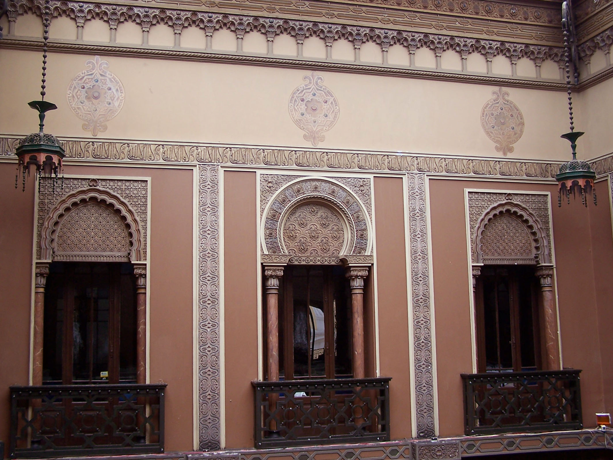 Moorish revival interior of the Casa do Alentejo in Lisbon, Portugal